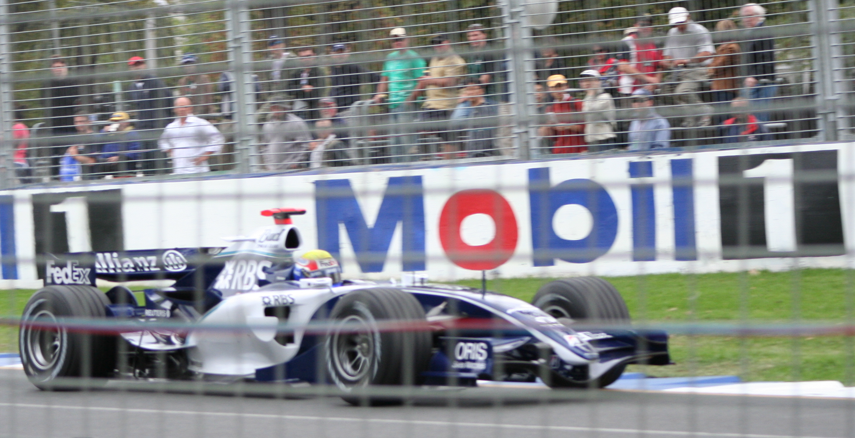 Mark Webber Friday practice at the Australian GP 2006